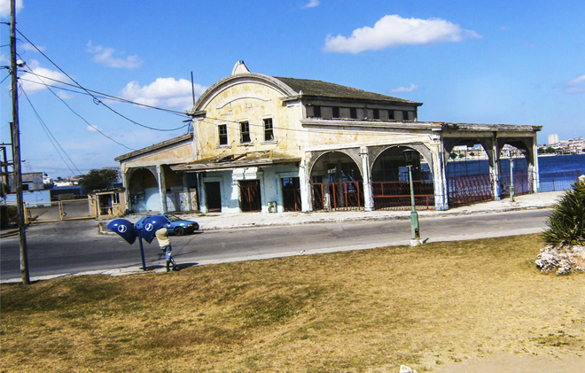 Dock of the boats of Regla, in the municipality of Regla, La Havana. 2015.